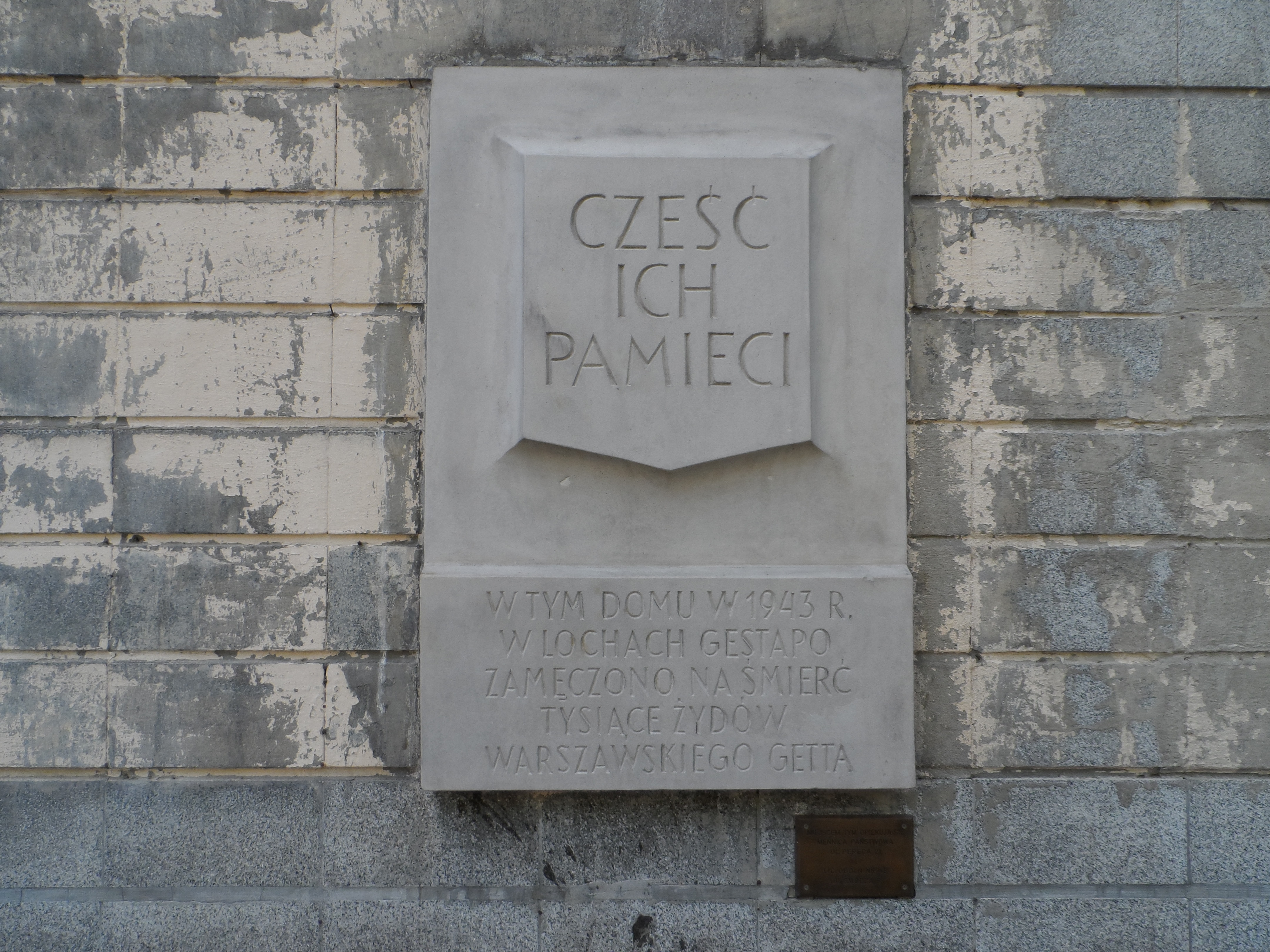 Plaque at 103 Żelazna Street in Warsaw, commemorating place when German “Befehlstelle Sipo” was located in summer 1942 – in the period of mass deportations of the inhabitants of the Warsaw Ghetto to the Treblinka extermination camp. This building was also used as an arrest and place of execution. Thousands of Jews were imprisoned, tortured and murder there.